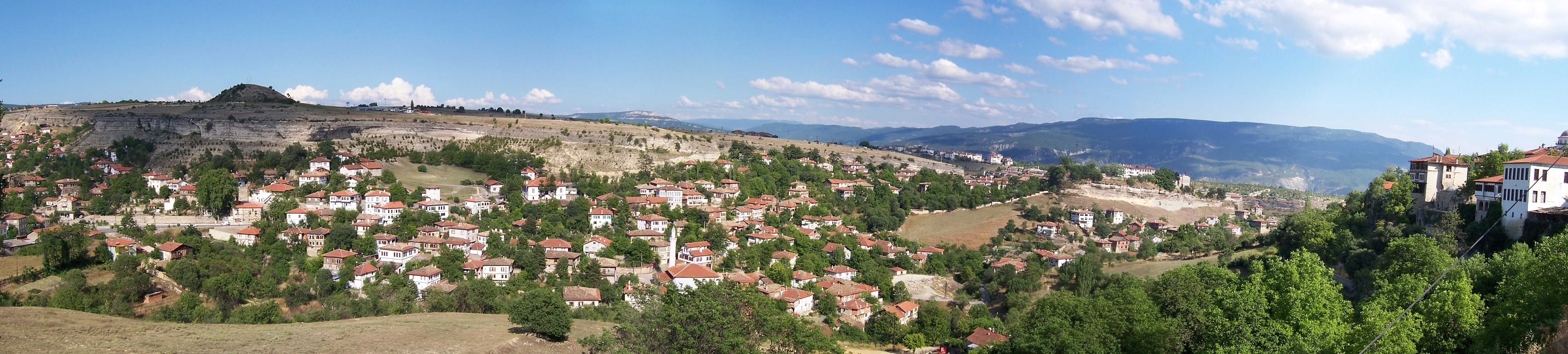 Panoramic view of Safranbolu